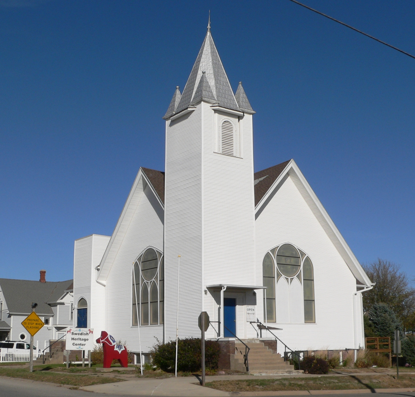 Swedish Heritage Center, located at northeast corner of 3rd Street and Charde Avenue (U.S. Highway 77) in Oakland, Nebraska; seen from the southwest.